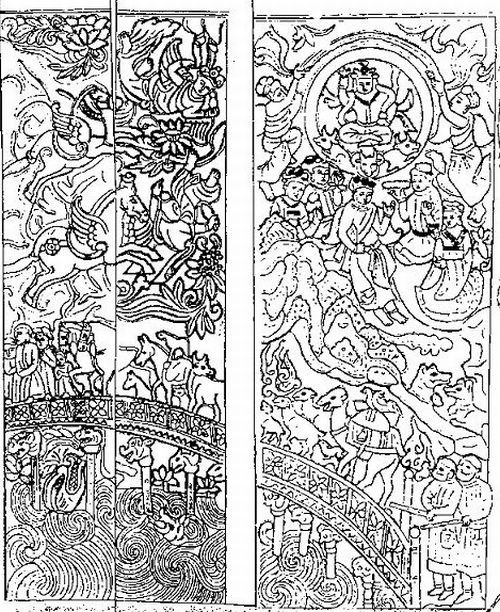 Line drawing of the eastern wall of the Sogdian sa-pao Wirkak’s sarcophagus in Hsi-an: Wirkak and his wife are on their way over the Chinvat Bridge to the Sogdian Paradise. Top right Wirkak and his wife can be seen feasting in Paradise, over them is the Sogdian God, Weshparkar, who welcomes the deceased. Upper left the sun god, Mithra, is hovering over the World together with some “apsaras”, which are a kind of angels and winged horses. A sinner seemed to be in free fall down towards the water. Under the bridge monsters are lurking for the sinners, who will be rejected by the guardians of the bridge. On the bridge the deceased are assumed to meet a fair young woman, who will be the personification of their life’s merits.